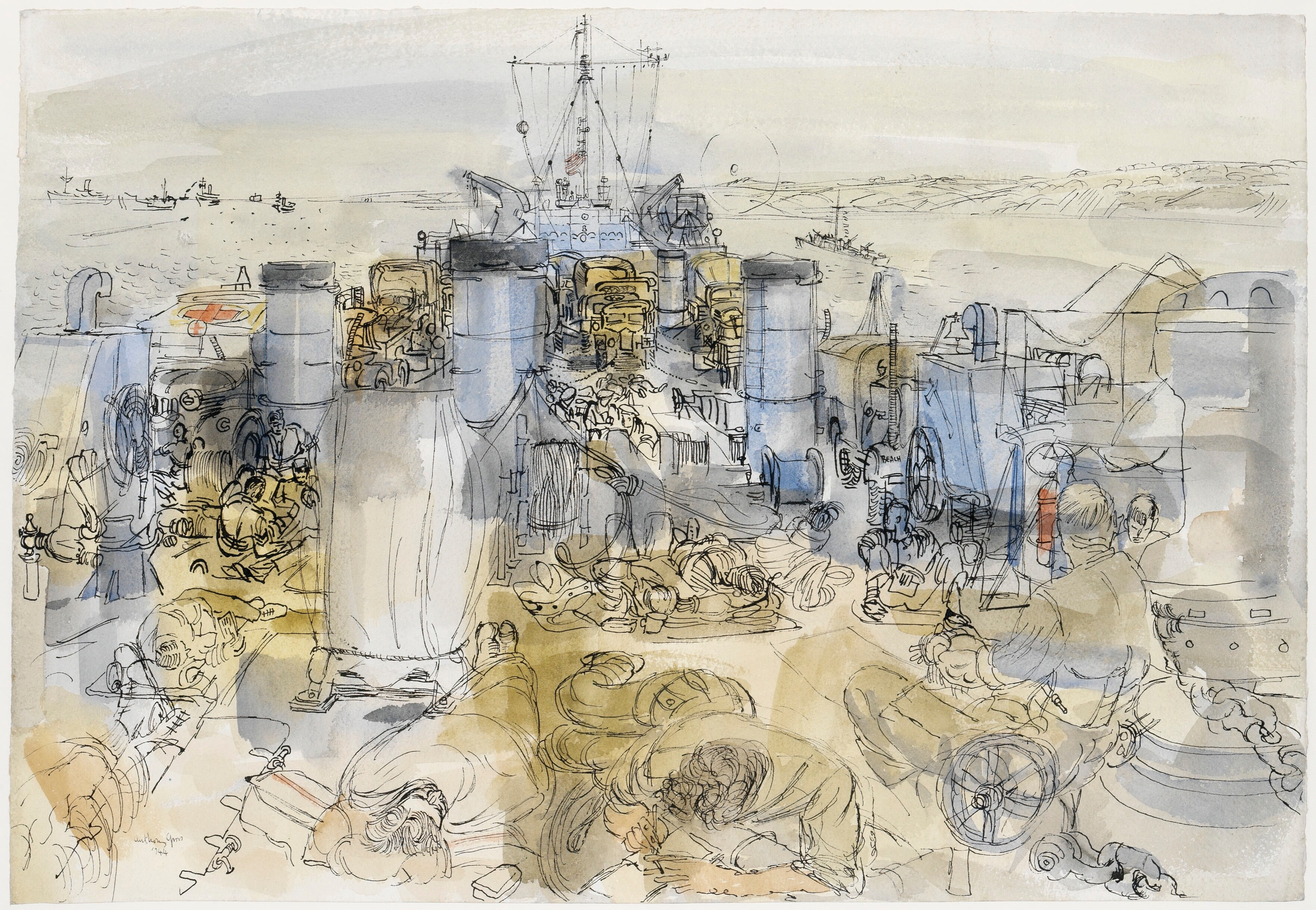 British Troops and Vehicles on the Deck of a US Landing Ship Tank image: View across the deck of an LST loaded with supplies and troops